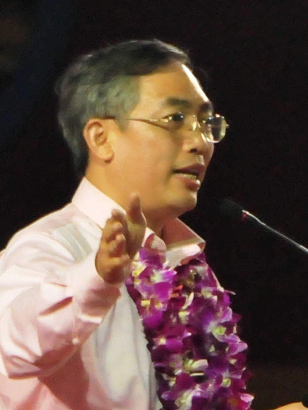 Goh Meng Seng during his rally speech at Tampines Stadium, Singapore, as a candidate of the National Solidarity Party during the Singaporean general election, 2011.